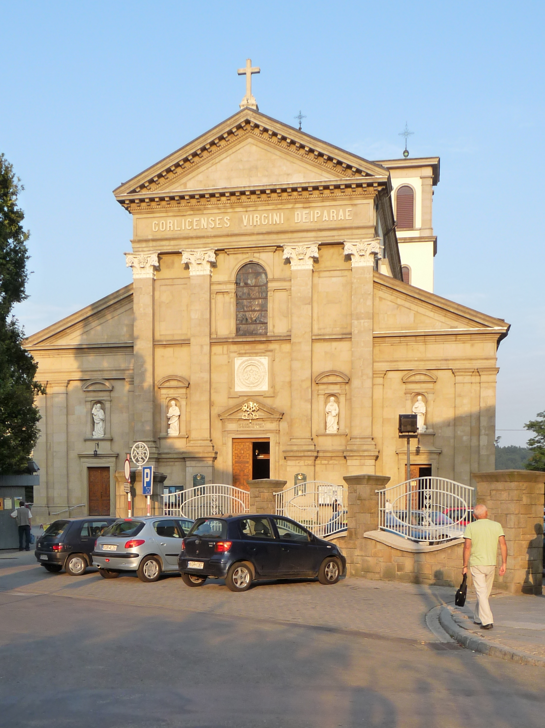 Minor basilica in Gorlice